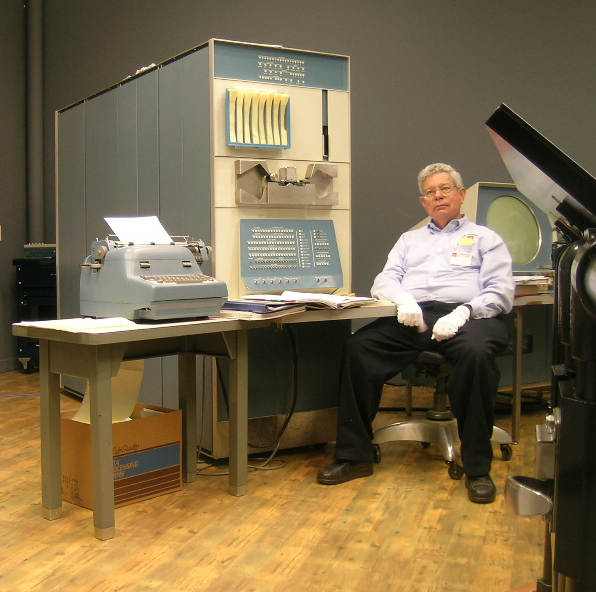 Steve Russell and the Computer History Museum's PDP-1 at the Vintage Computer Fair 2006